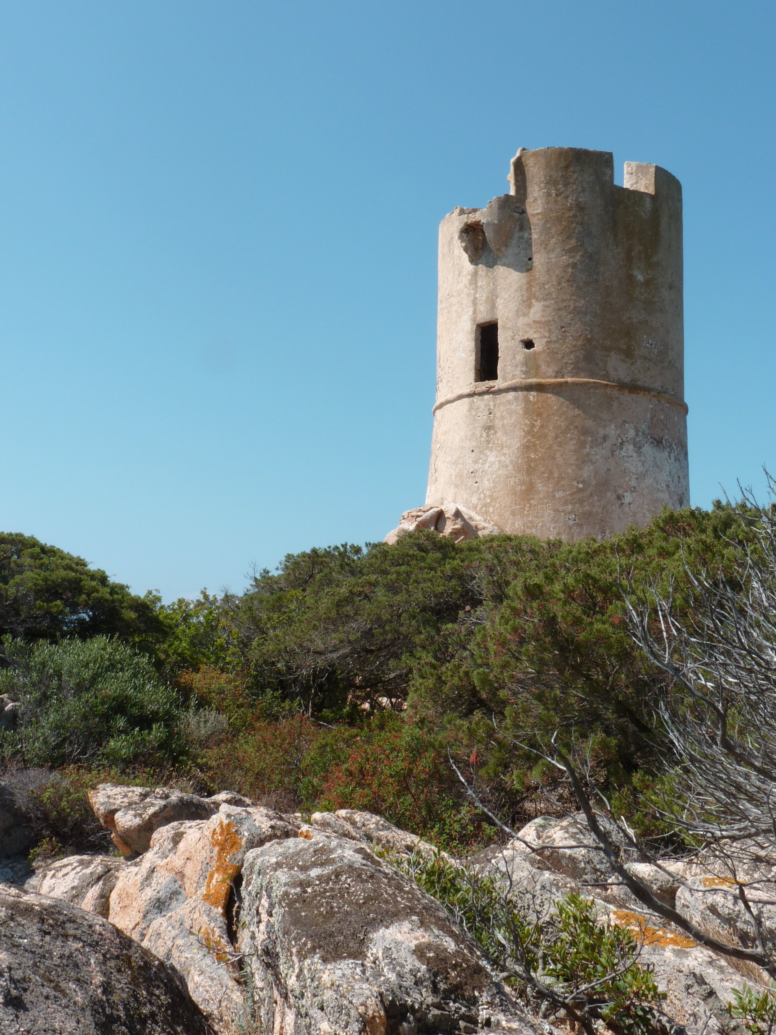 Genoese tower of Olmeto (near Monacia-d'Aullène, Corse-du-Sud).